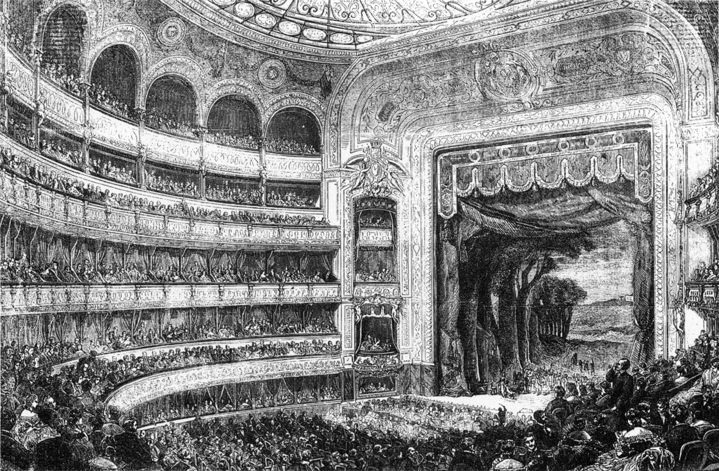 Press illustration of the interior of the Théâtre Lyrique on the Place du Châtelet during a performance of Ernest Boulanger|'s opera Don Quichotte on 10 May 1869, an engraving published in Le journal illustré (May 1869)